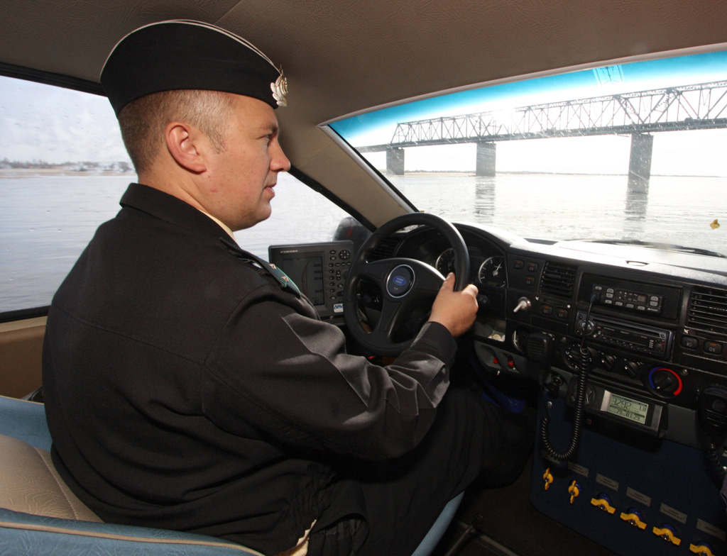 “Coast guard unit activity of Russian Federal Security Service's Amur Region Border Guard Agency”. Commander of the coast guard ship of the Amur Region Border Guard Agency's Coast Guard Unit of the Russian Federal Security Service.